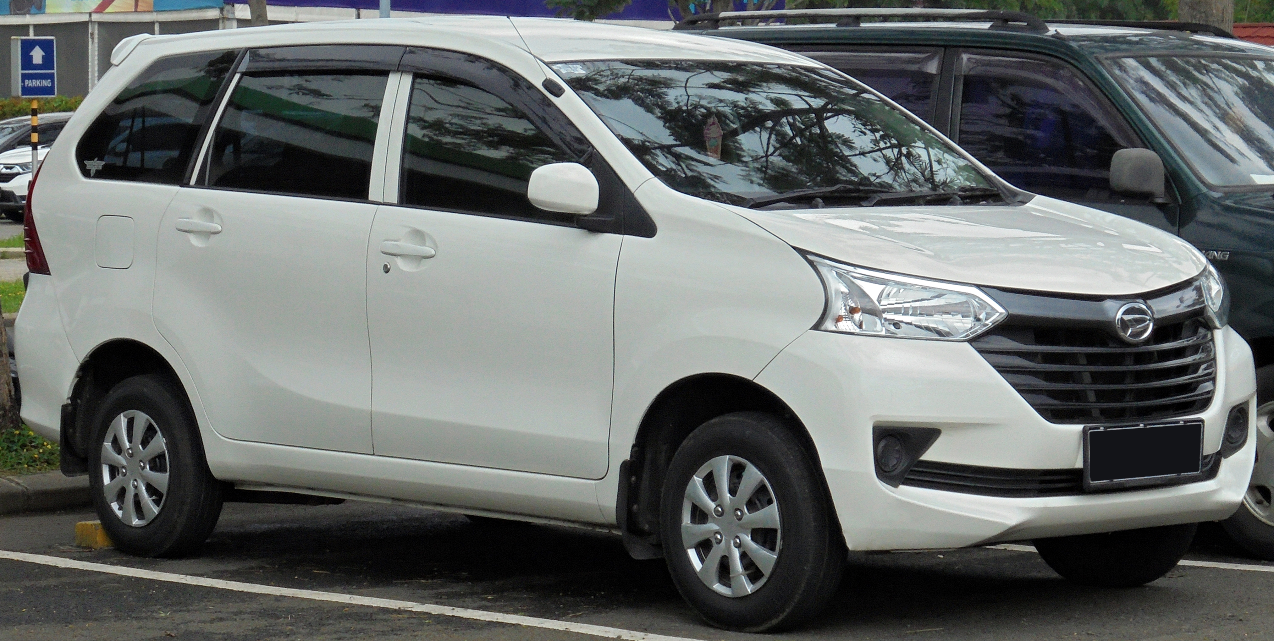 2016 Daihatsu Xenia 1.0 M wagon (F650RV) photographed in South Tangerang, Banten, Indonesia.